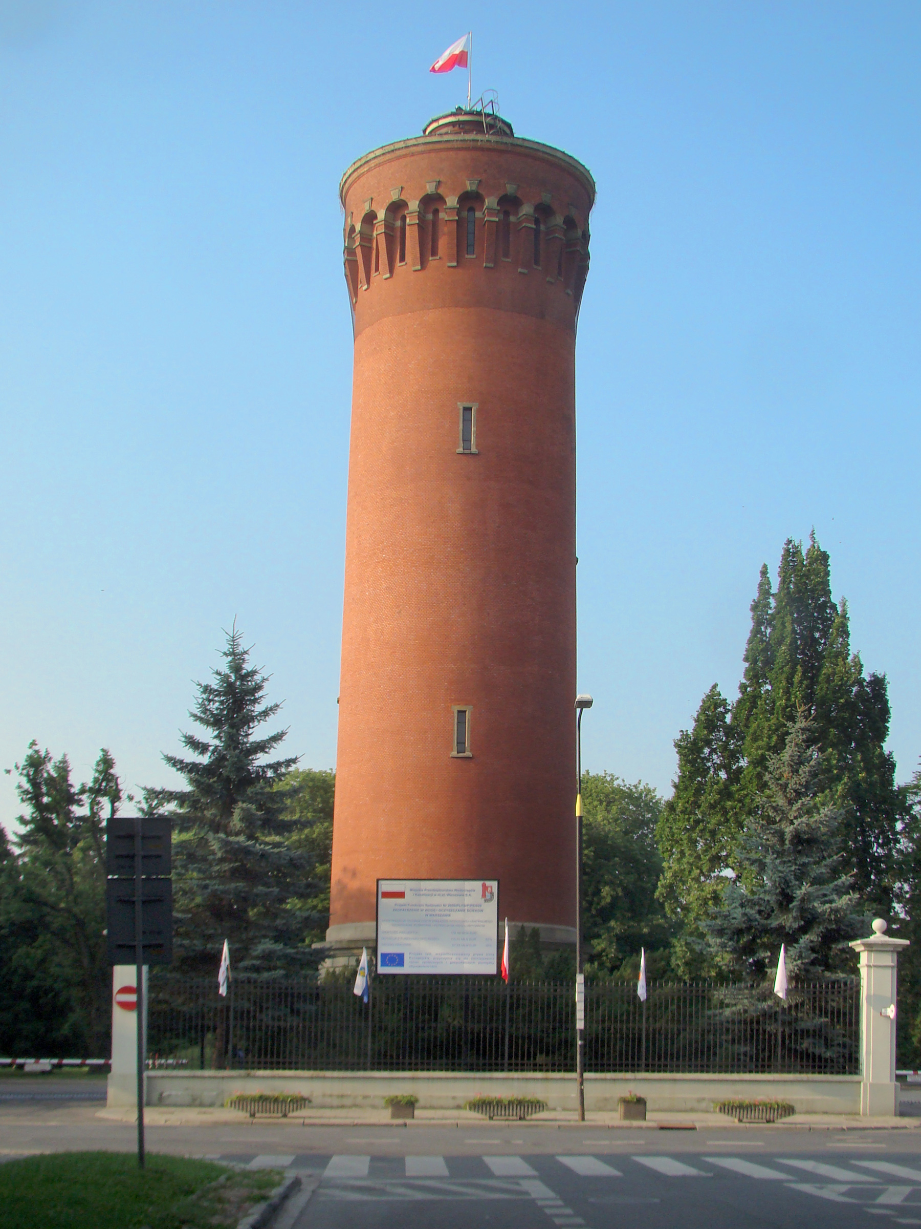 Water pressure tower - Warsaw